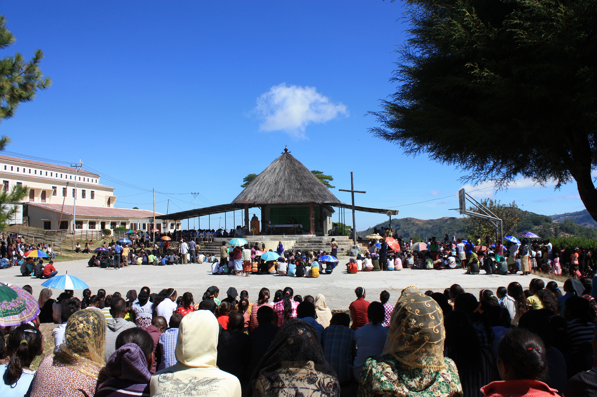 Timor-Leste Church Mass: District Ermera, Subdistrict Letefoho, Suco Haupu. Sunday church mass in July 2012